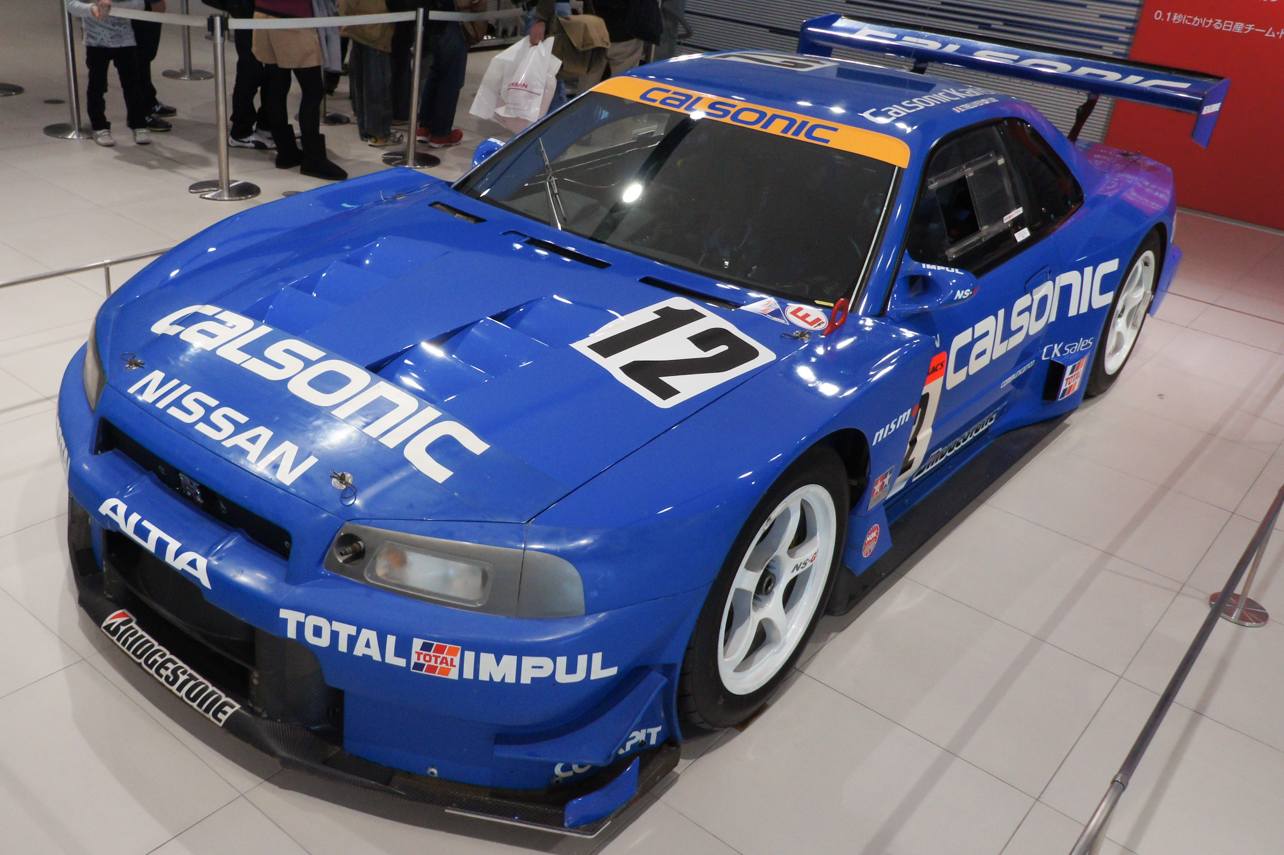 2002 Calsonic Skyline GT-R (BNR34)